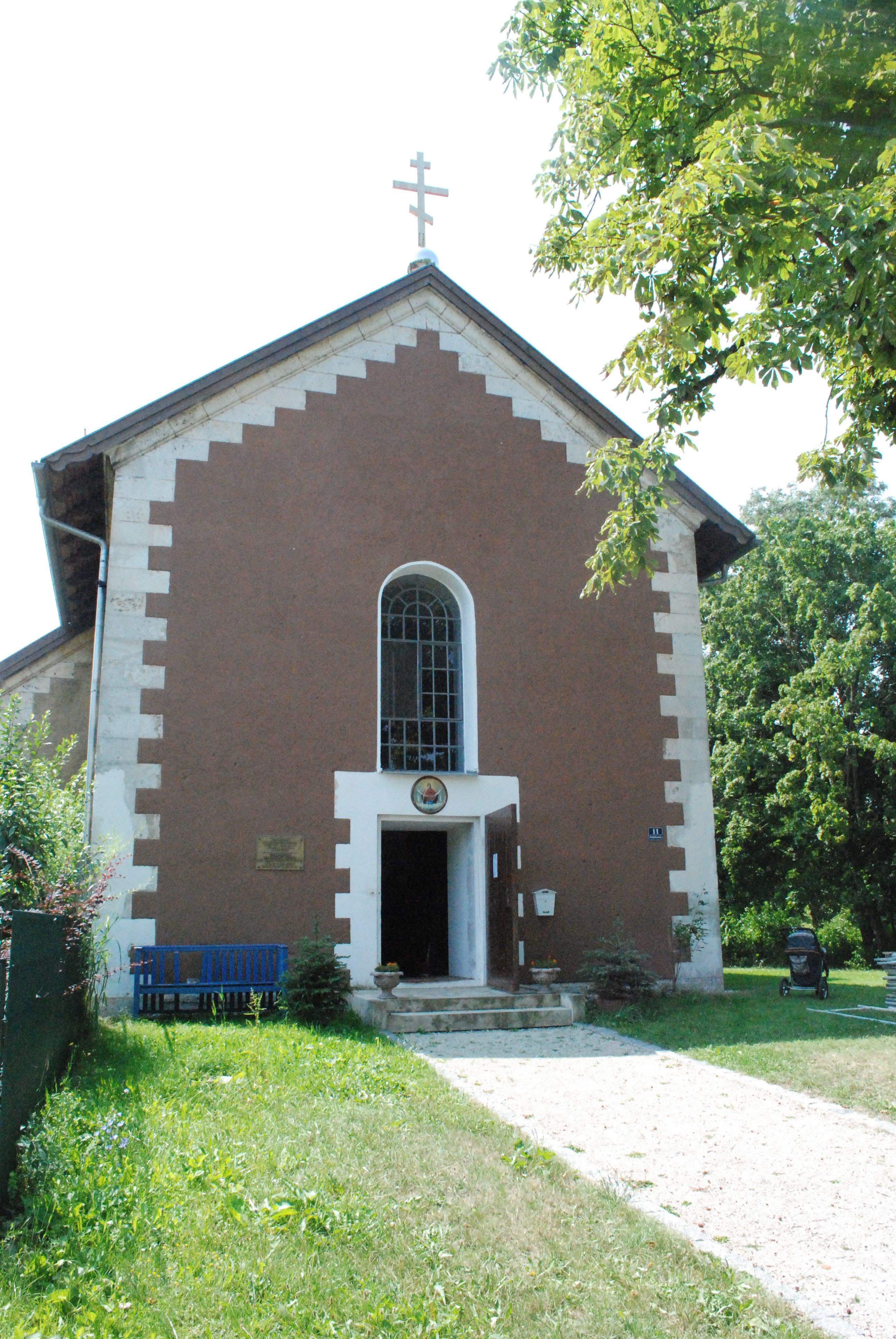 Ukrainian Church